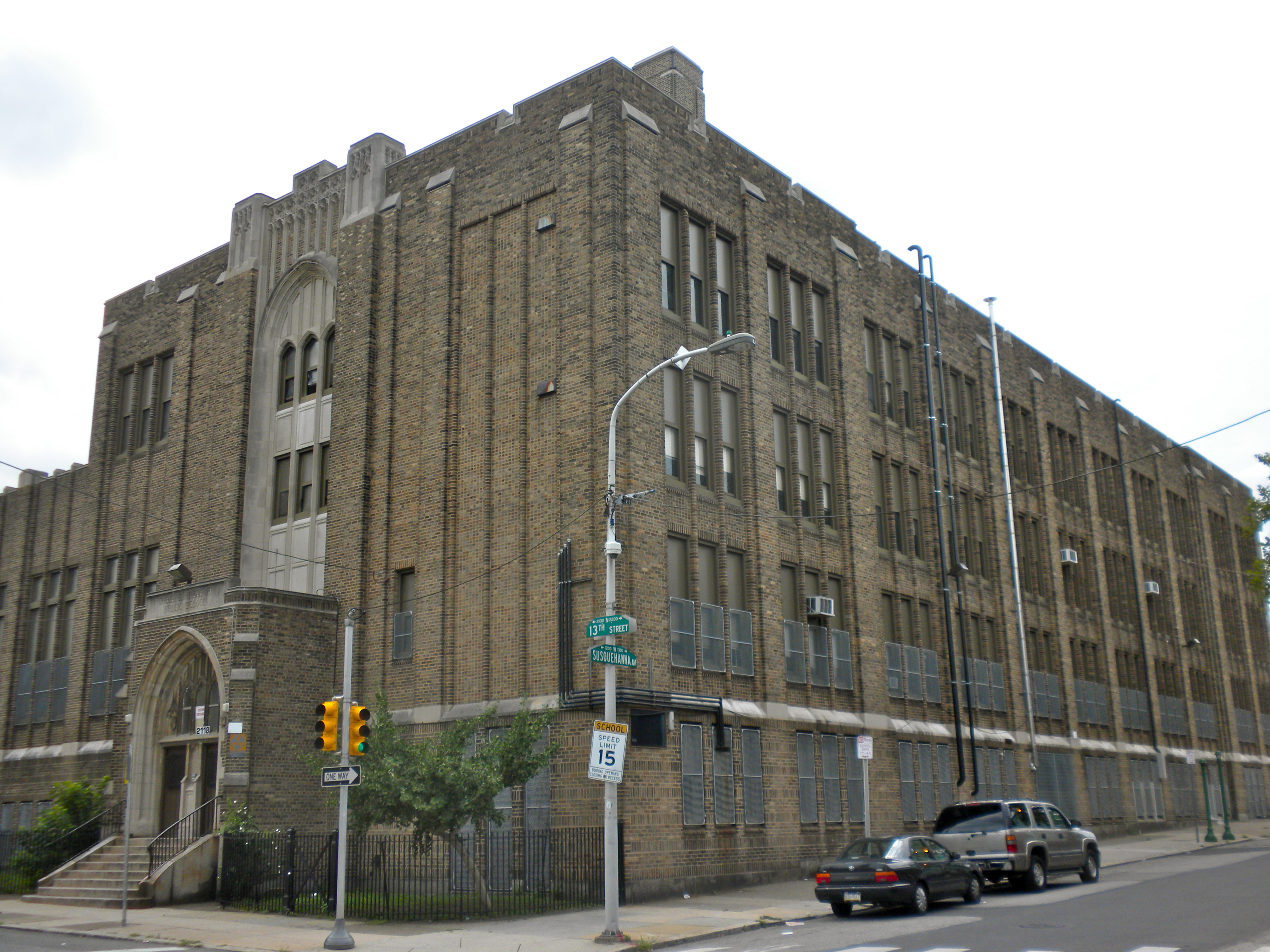 James Elverson, Jr. School on the NRHP since November 18, 1988. At 1300 Susquehanna Ave., Philadelphia in the Templetown neighborhood of North Philly.